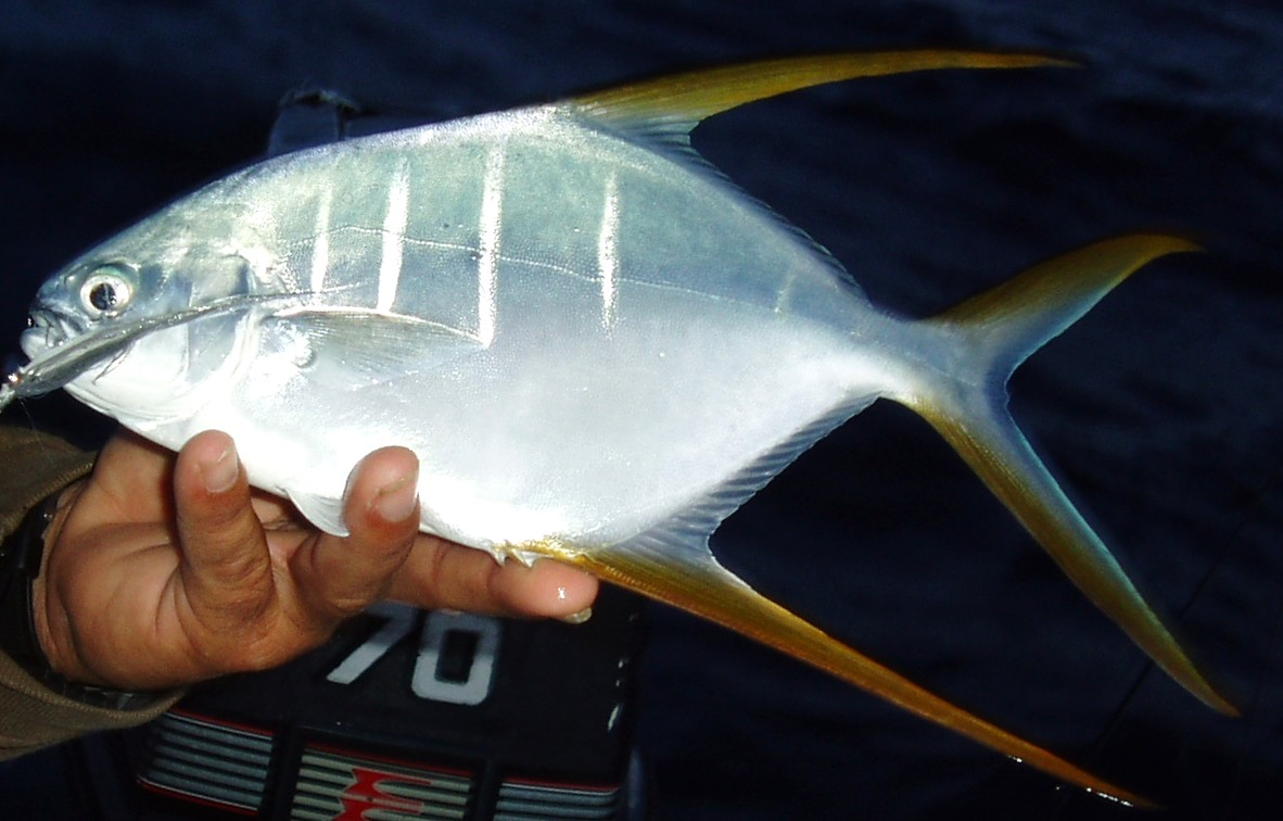 Trachinotus rhodopus, Baja California